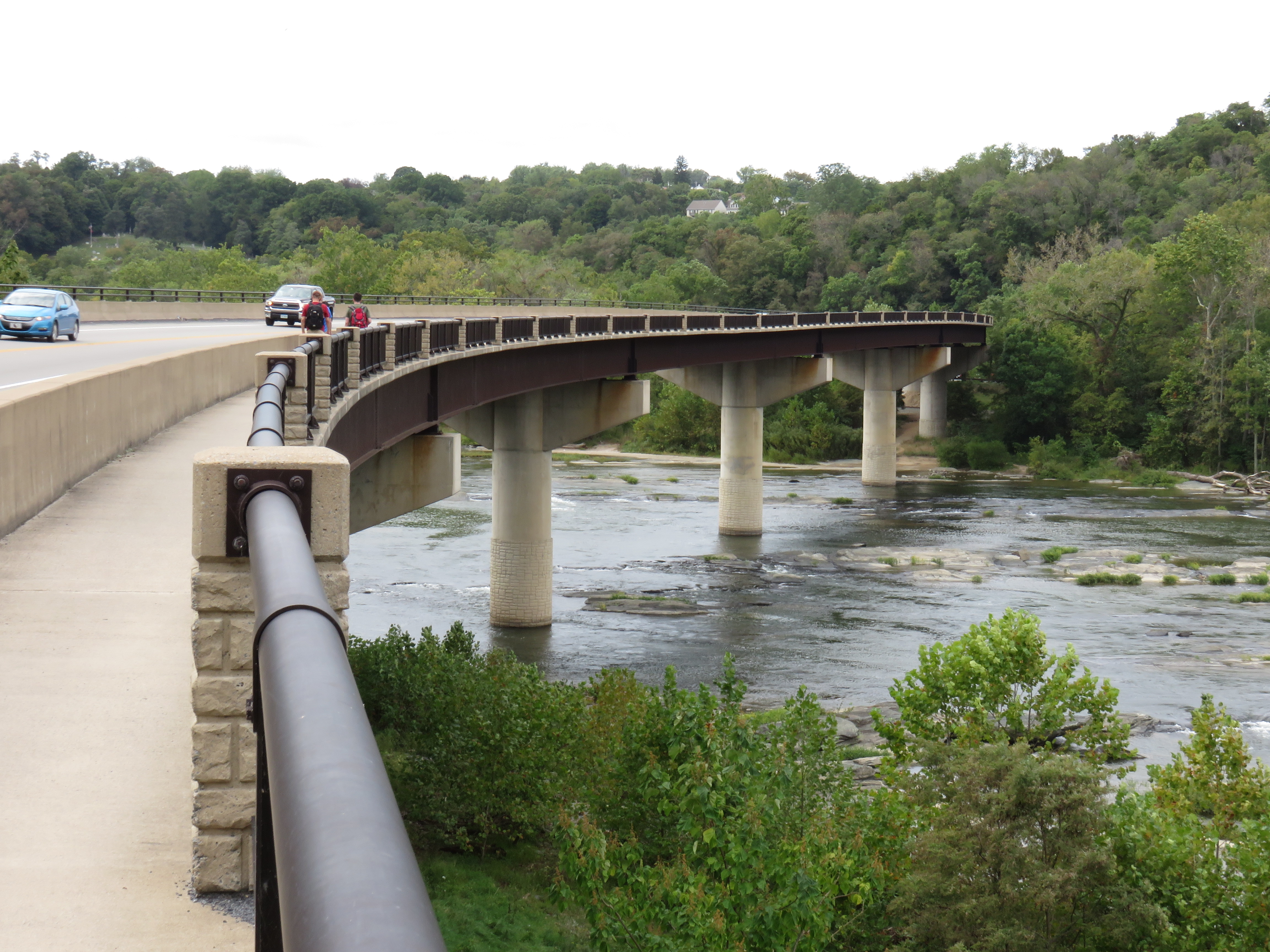 Bridge carrying US-340 over the Shenandoah River in Harpers Ferry, West Virginia − in 2015.